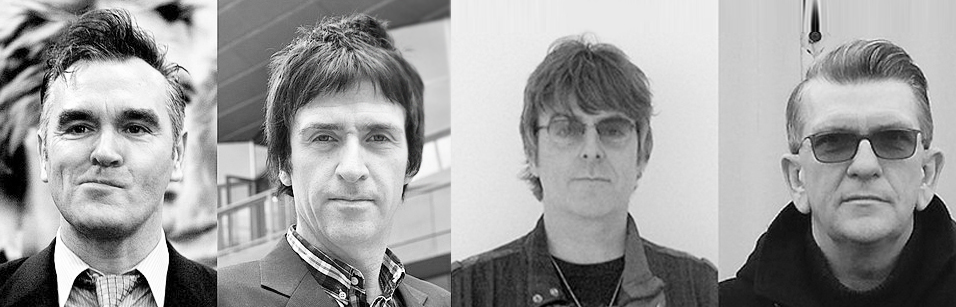 Black and white collage of The Smiths